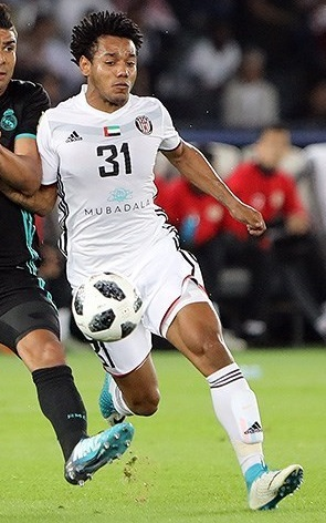 Romarinho Ricardo Silva, playing for Al-Jazira against Real Madrid in FIFA Club World Cup